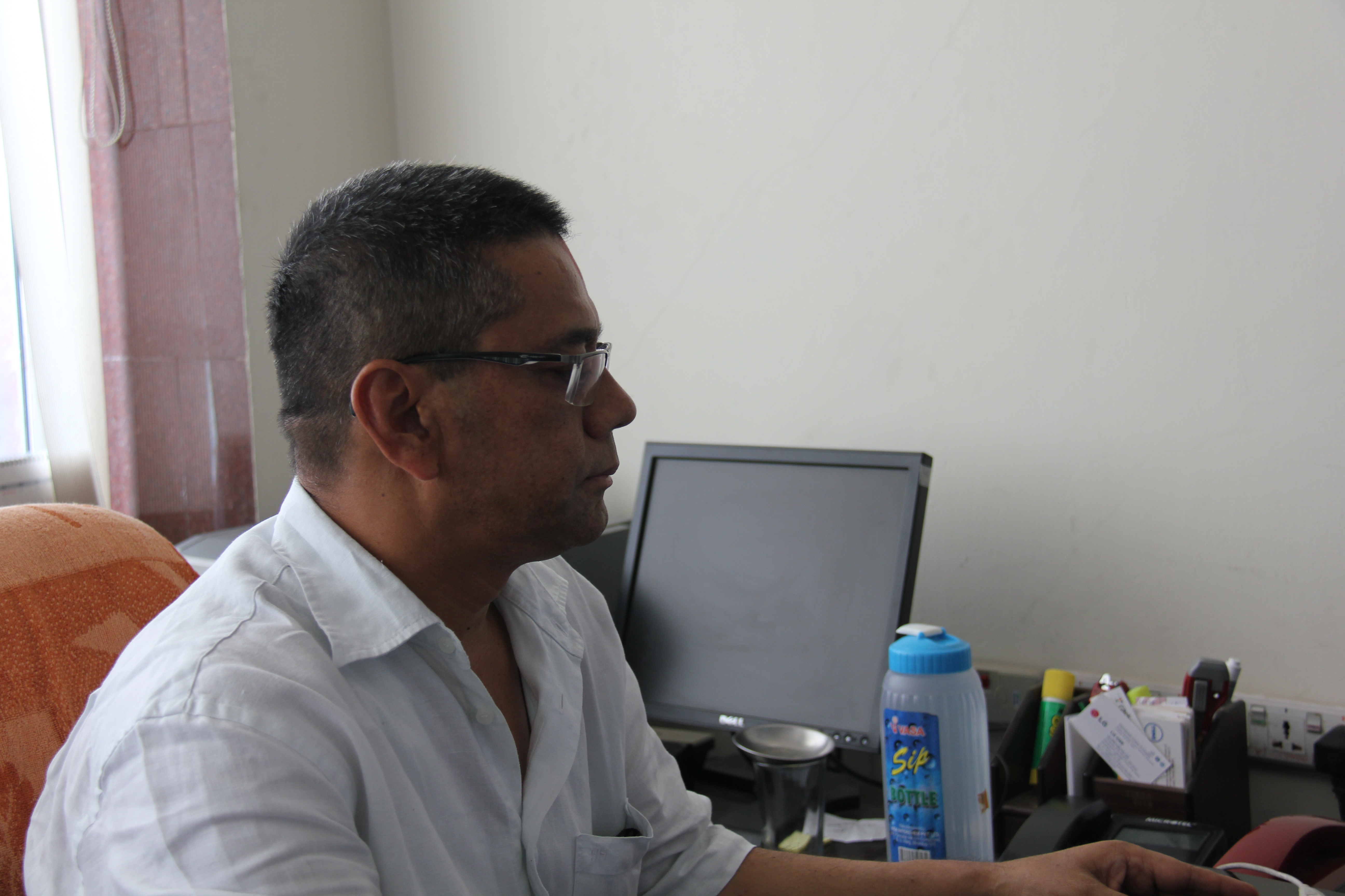 Lochan Lal Amatya